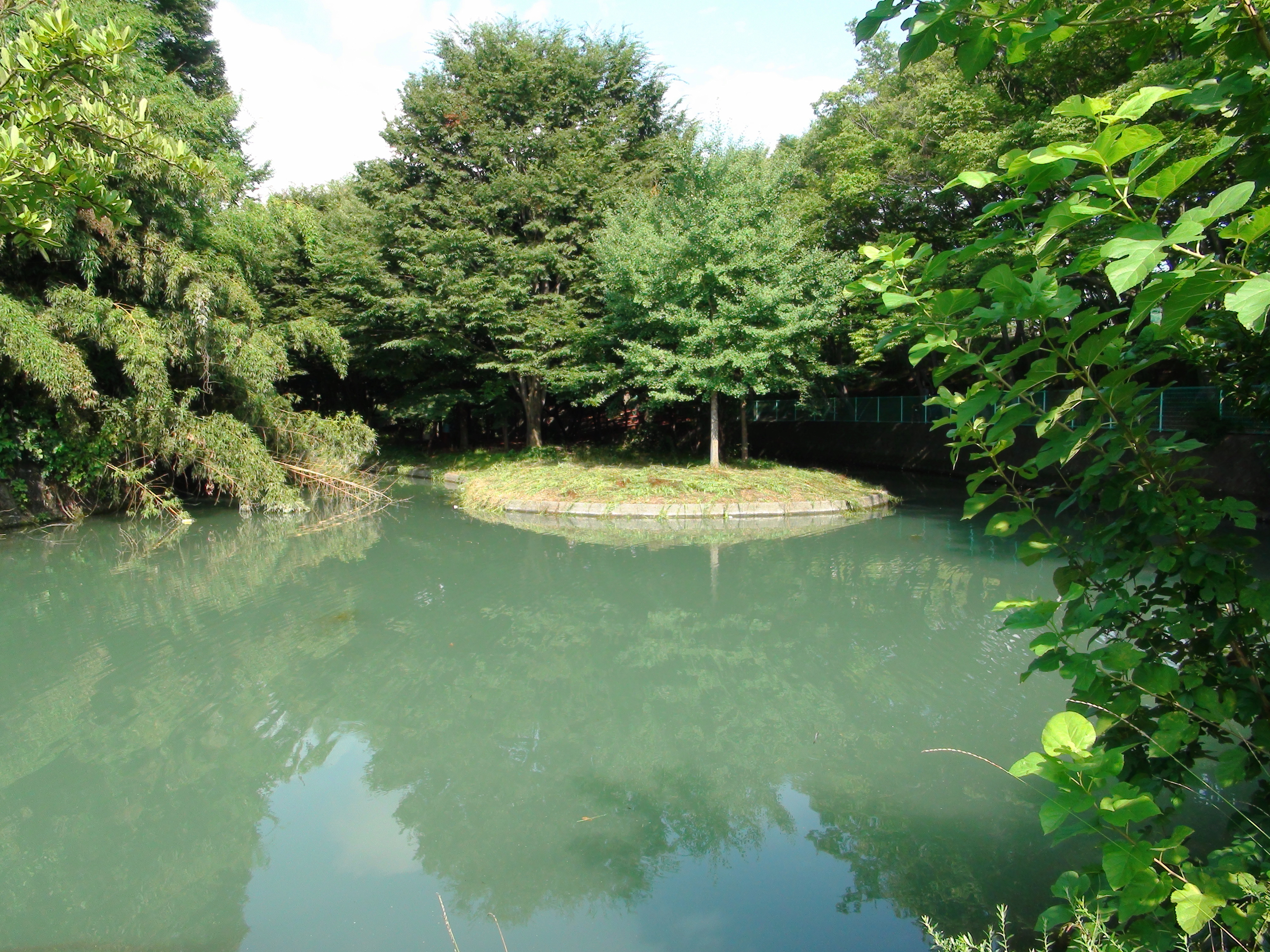 Nozo-Ike Pond Minami-alps, Yamanashi